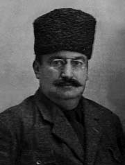 Yunus Nadi Bey